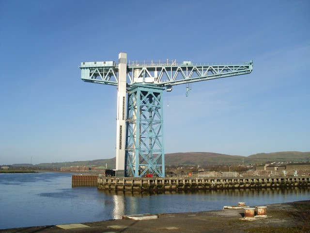 Clydebank Titan Crane The last remaining landmark of the John Brown Clydebank Shipyard.